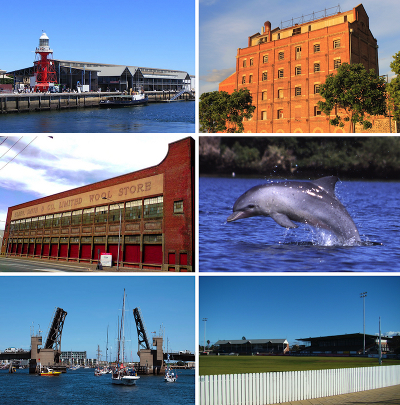 Another alternative six frame montage of Port Adelaide. Images from top, left to right: Port Adelaide Lighthouse and Fishermans Wharf Market, File:Port Adelaide Dock from Port River.jpg, Peripitus Adelaide Milling Complex "Hart's Mill", File:Hart's Flour Mill (Hart's Mill).jpg, Mertie Elder Smith Wool Stores, File:Elder Smith Wool Store Port Adelaide.jpg, Feral Arts Port River Dolphin, File:Tursiops aduncus, Port River, Adelaide, Australia - 2003.jpg, Aude Steiner Birkenhead Bridge, File:Birkenhead Bridge open 2010.jpg, Bilby Alberton Oval, File:Fos Williams Stand.JPG, Tealtime